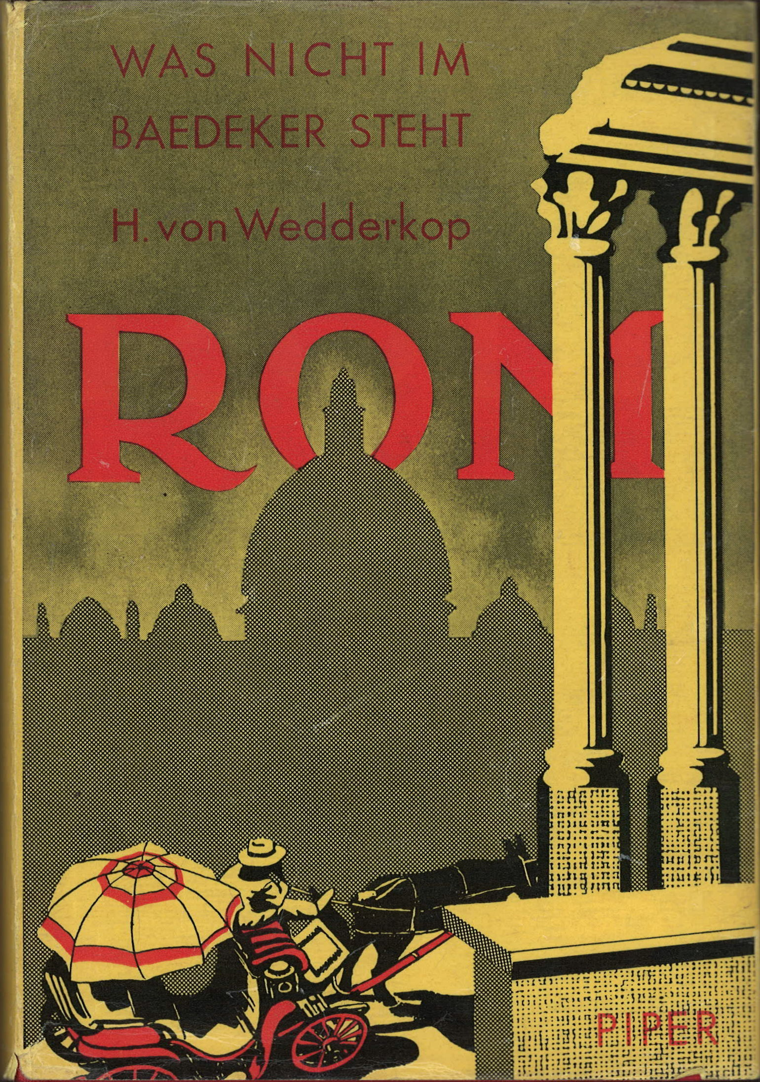 Book cover of: Was nicht im Baedeker steht. Rom 1938, Coverdesign: Rudolf Großmann (?), + 1941 (no signature)